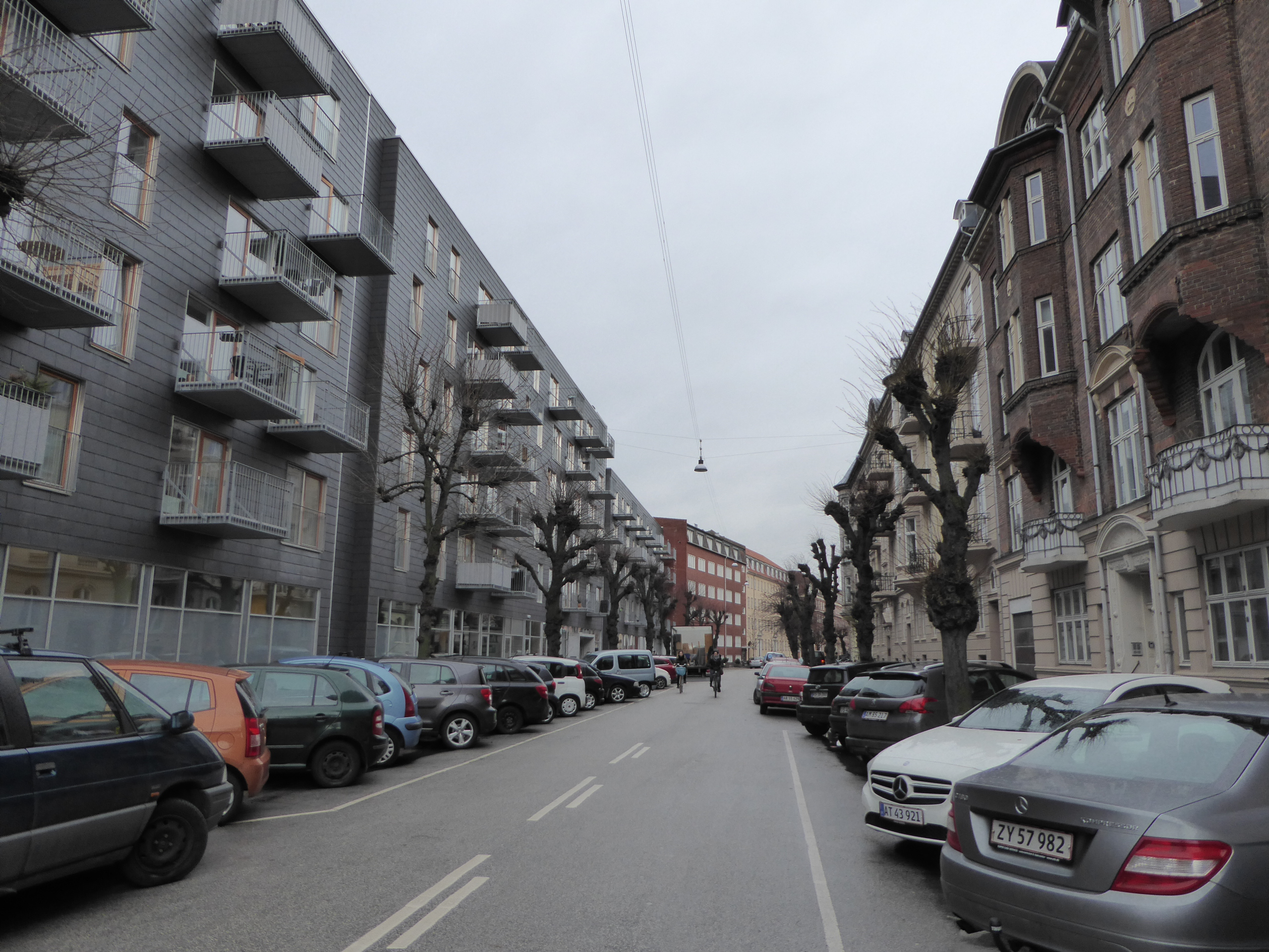 The street Drejøgade in Østerbro in Copenhagen.